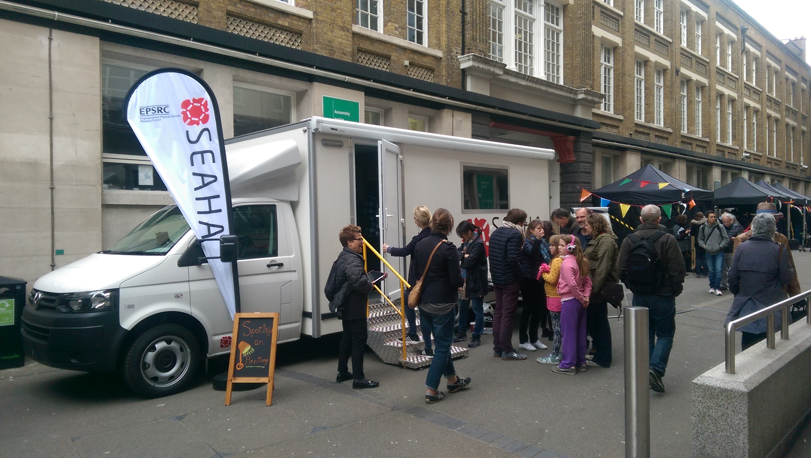 SEAHA_Mobile_Heritage_Lab in Malet Place, London WC1E